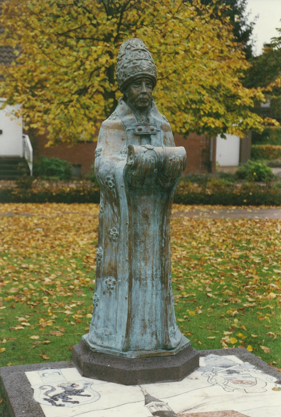 Monument in Davensberg/Germany for Pope Innozenz VIII. (1432-1492)